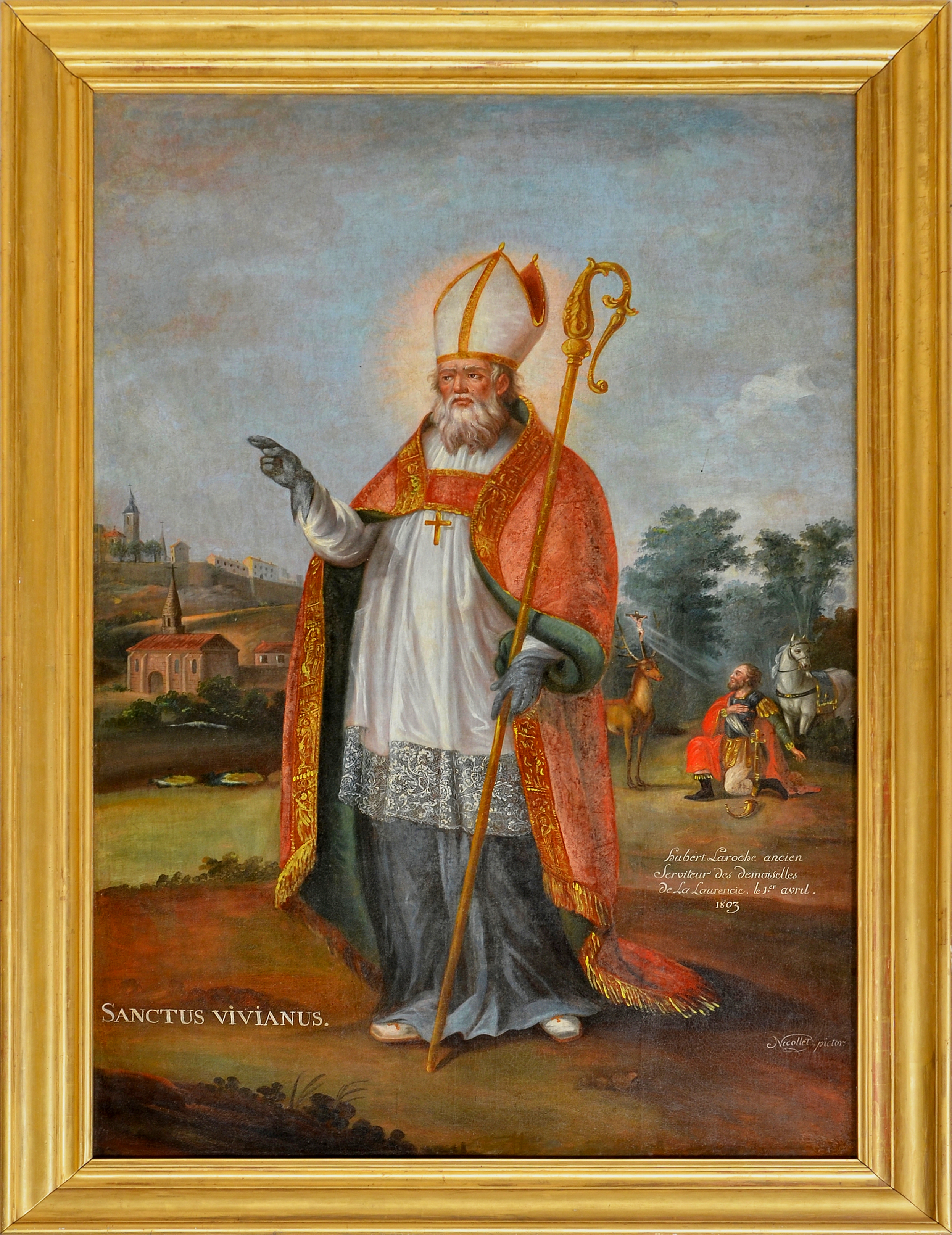 Saint Vivien of Saintes (5th century), patron saint of the church, by François Nicollet (ca 1800), church of Charras, Charente, France.